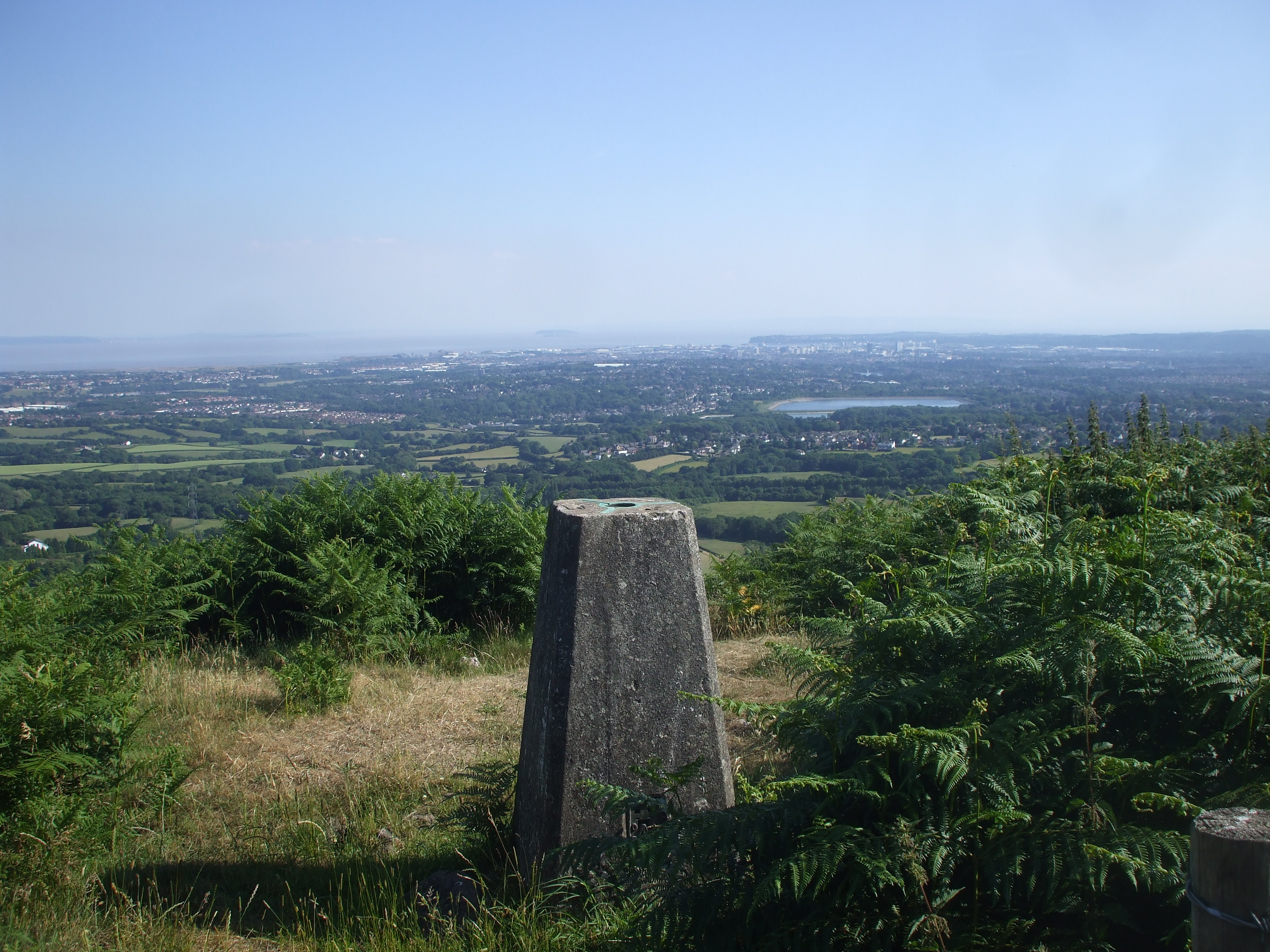 Trig point on the ridge of Graig Llysfaen